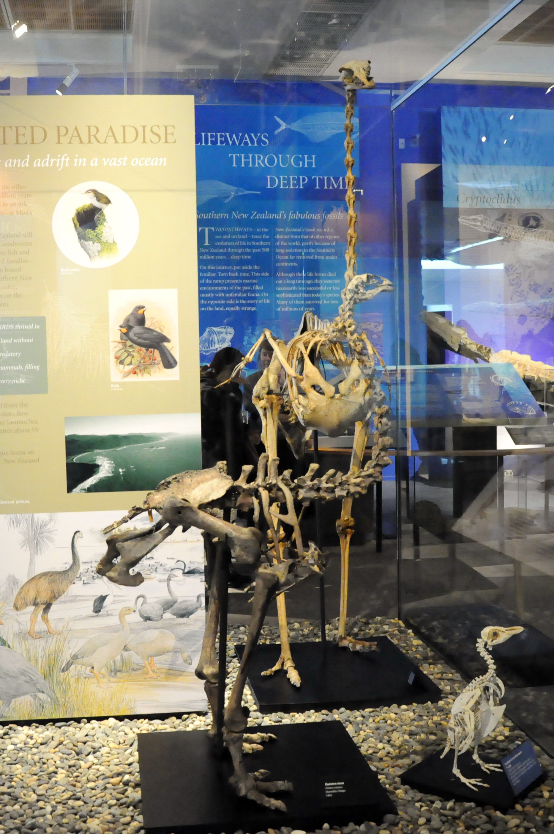 The skeletons of Eastern moa (Emeus crassus), ostrich, and Fiordland penguin in Otago museum.